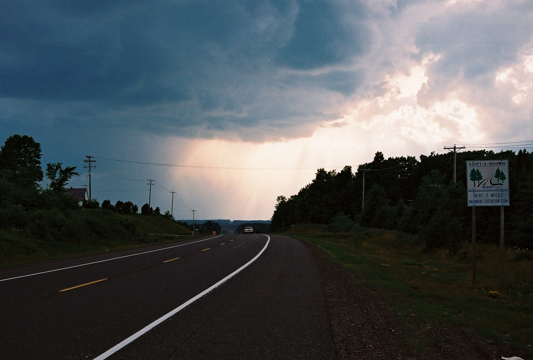 Cloud brewing over M-28 in eastern Ontonagon County, Michigan